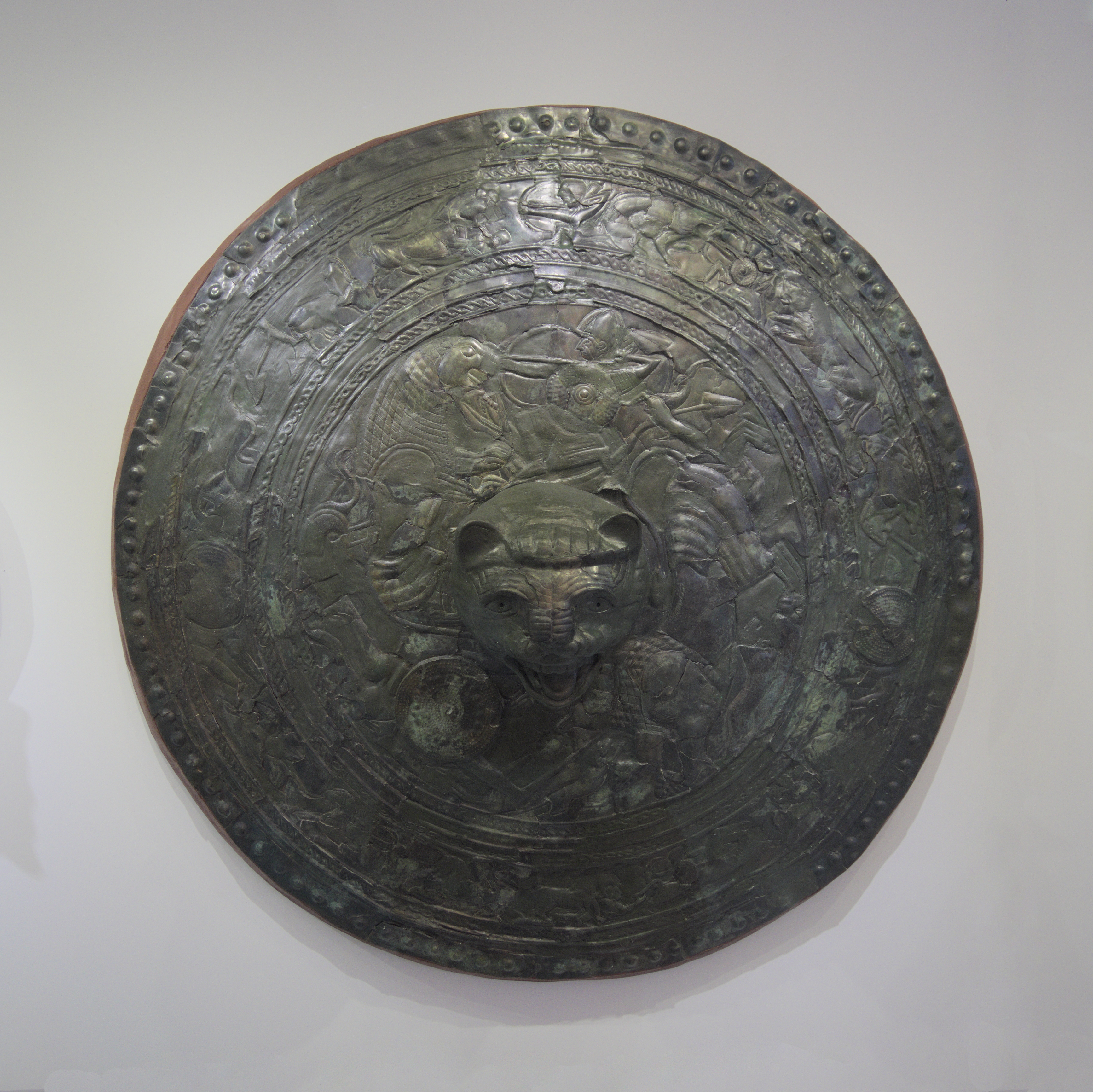 A bronze shield found at Idaean Cave with hammered and incised decoration, used as a votive offering. Late 9th-7th century BC, now at Archaeological Museum of Heraklion